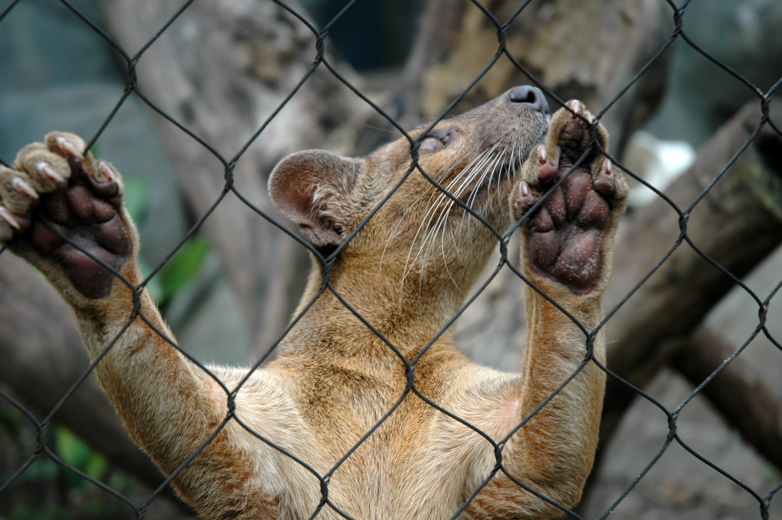 New female Fossa.